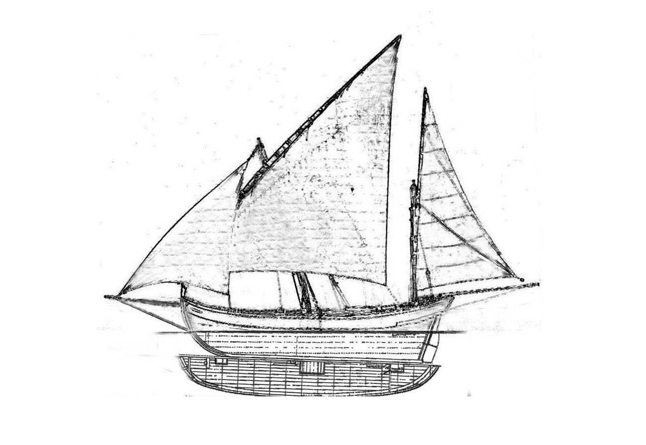 Sail plan Of a XVII century Barca de Mitjana